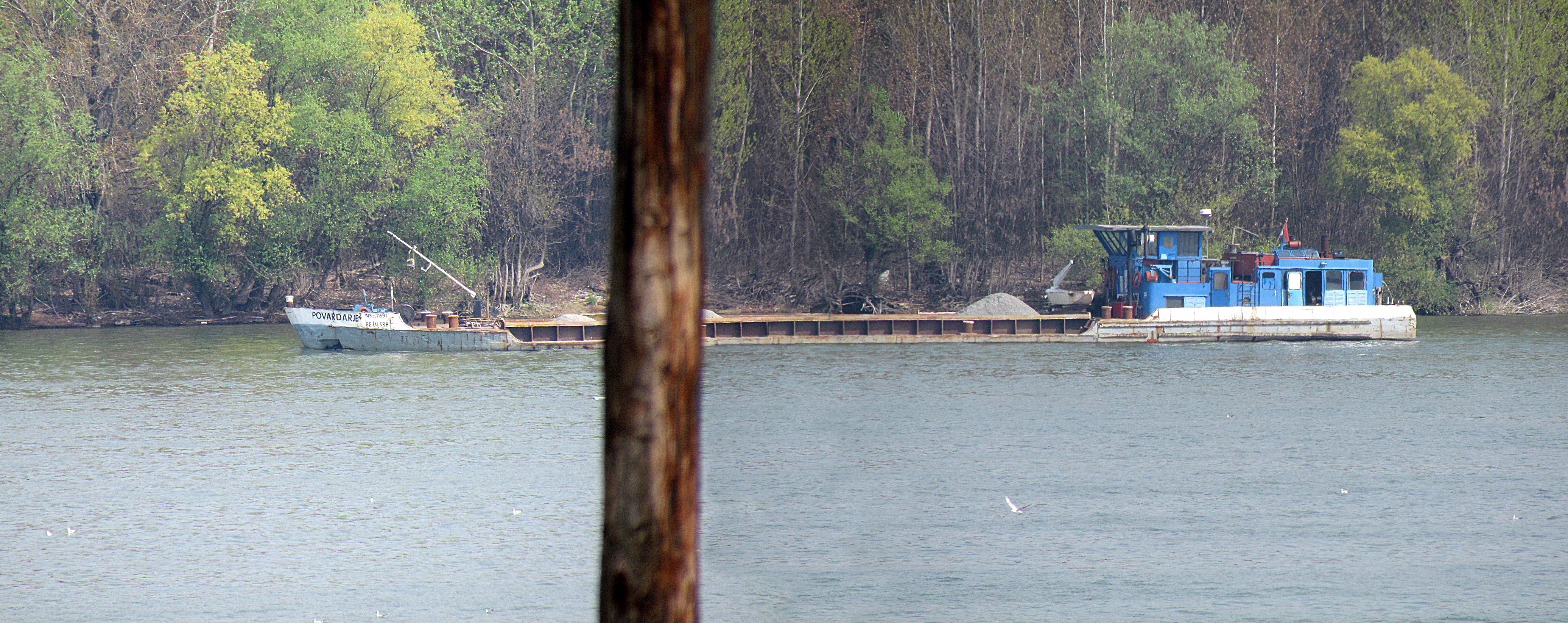 Self-propelled barge "Povardarje" Serbia